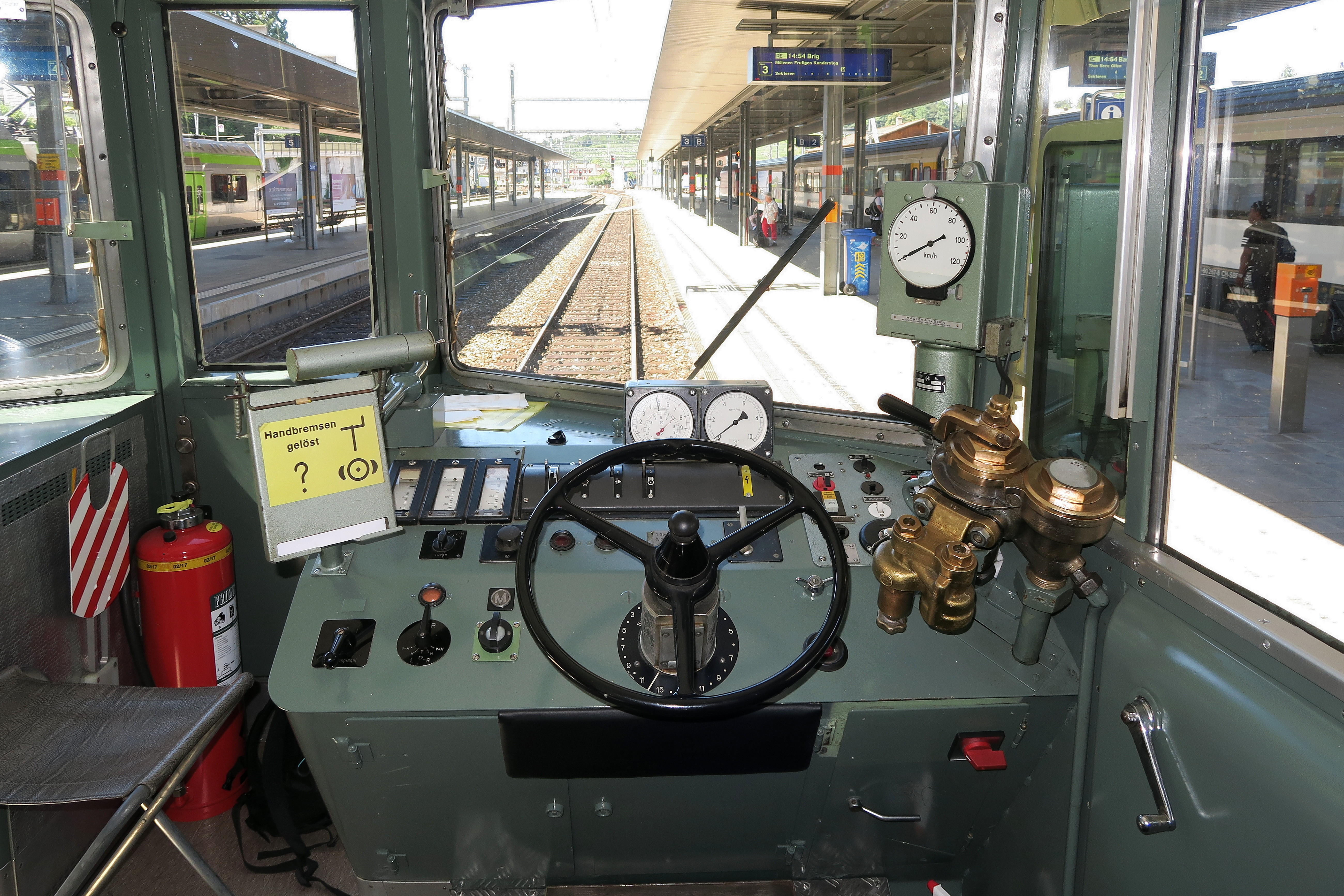 The Blue Arrow BCFe 4/6 736 BLS is one of three railcars which were put into operation in 1938, and that has survived as the only one. Switzerland, Aug 14, 2016.